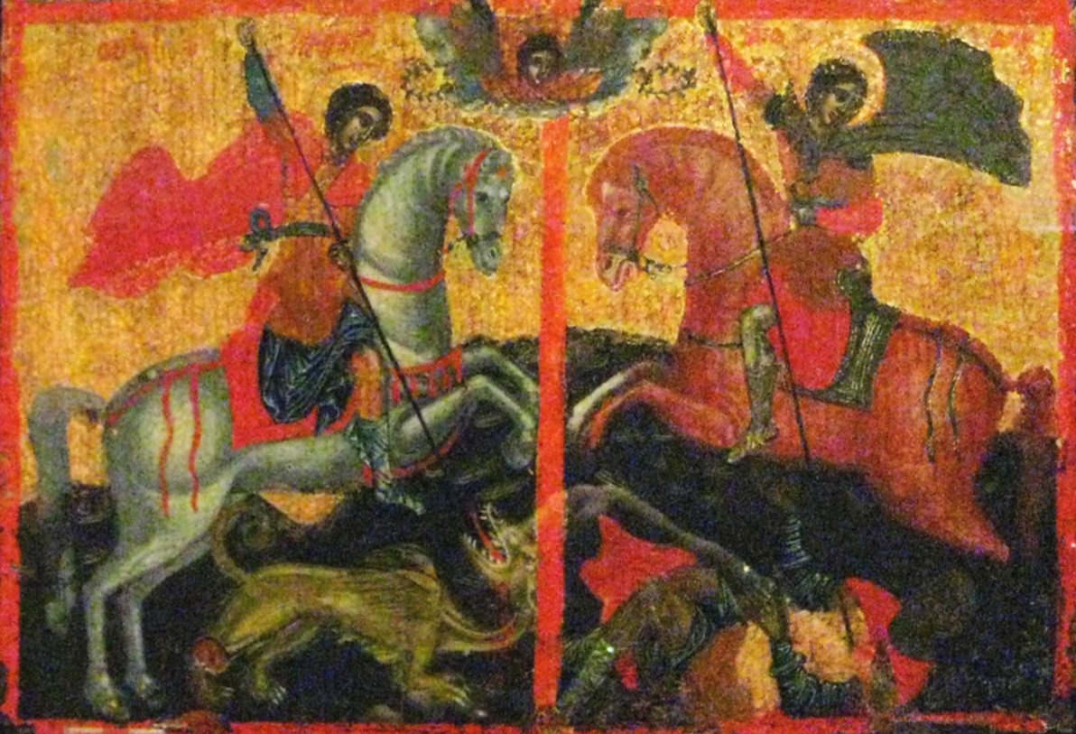 Deisis with S.George and S.Demetrius (detail). Greece.